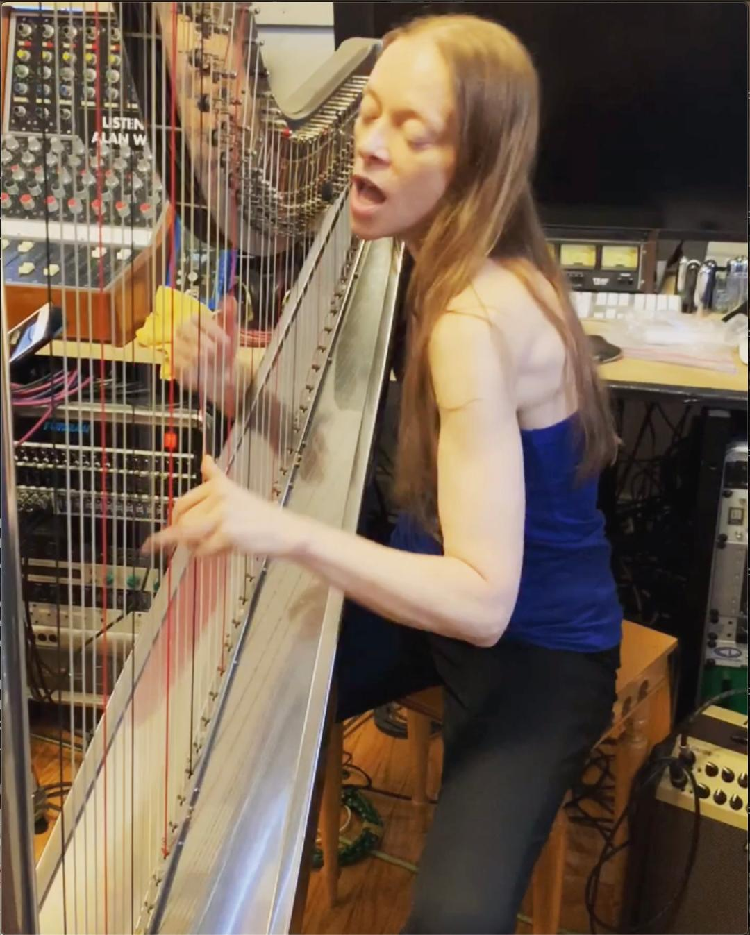 Erin Hill